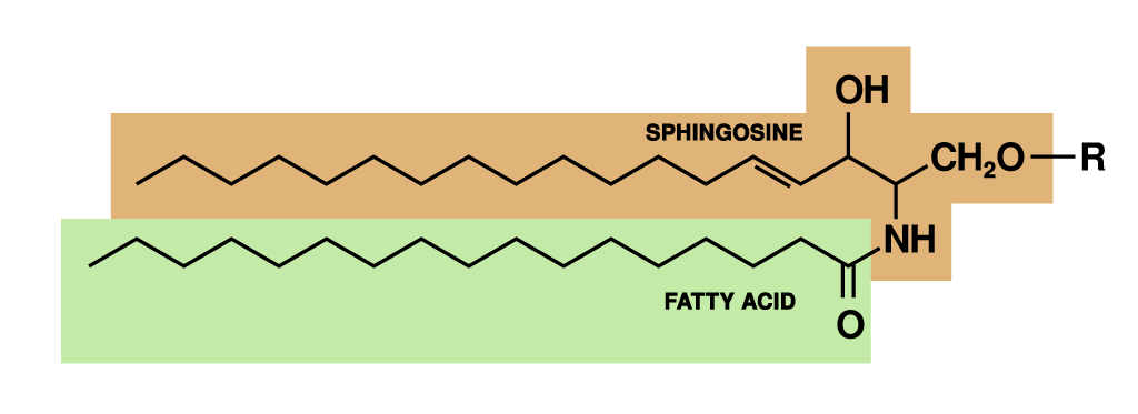 General chemical structure of sphingolipids. Different substituents (R) give: H - ceramide, phosphocholine - sphingomyelin, sugar(s) - glycosphingolipid(s). Created by Karol Langner (en:2005) using XDrawChem and GIMP and released into the public domain.